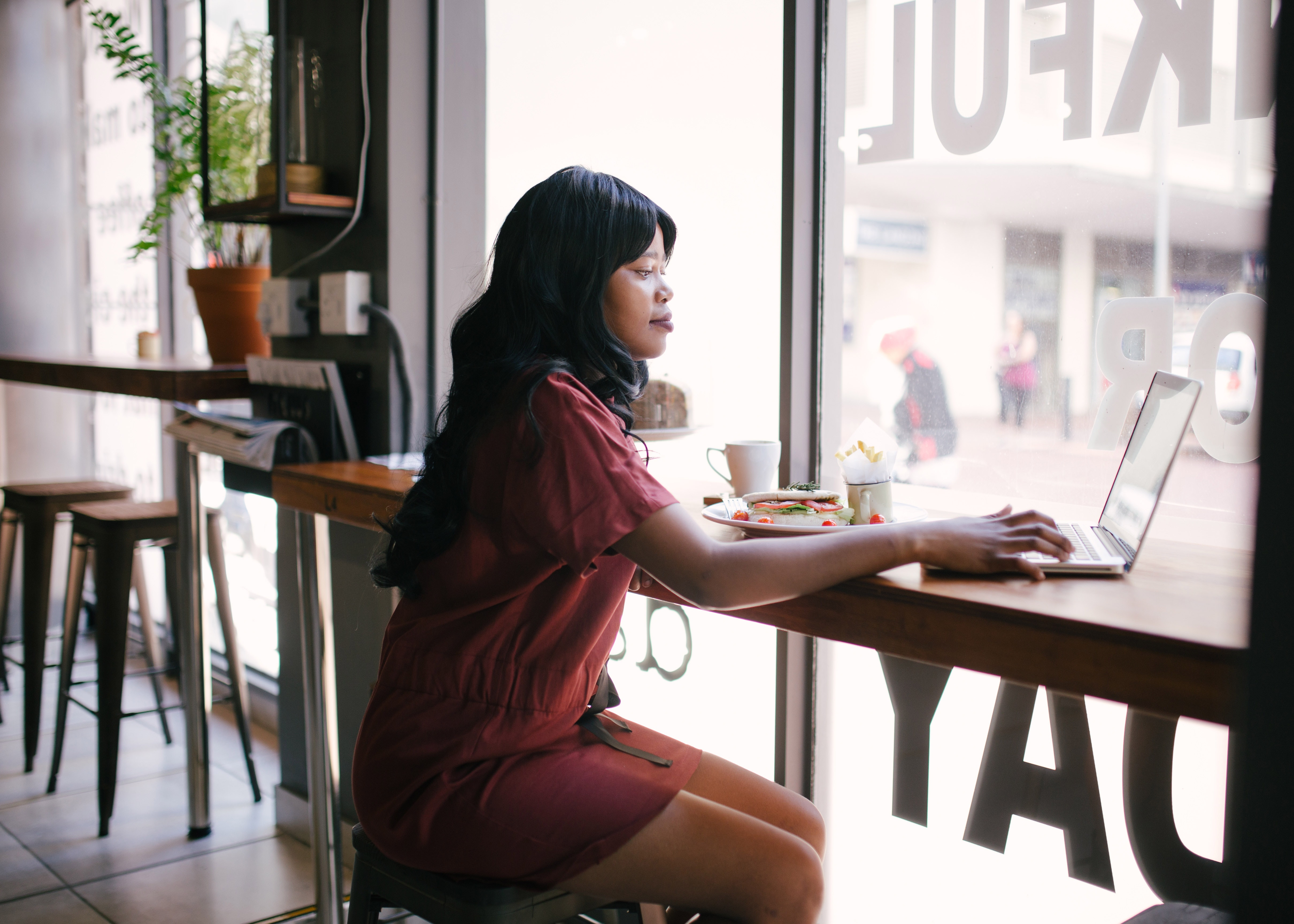 woman working in a coffeehouse